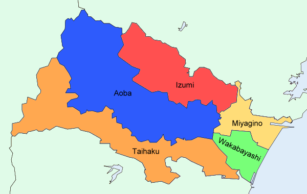 Map of wards of Sendai